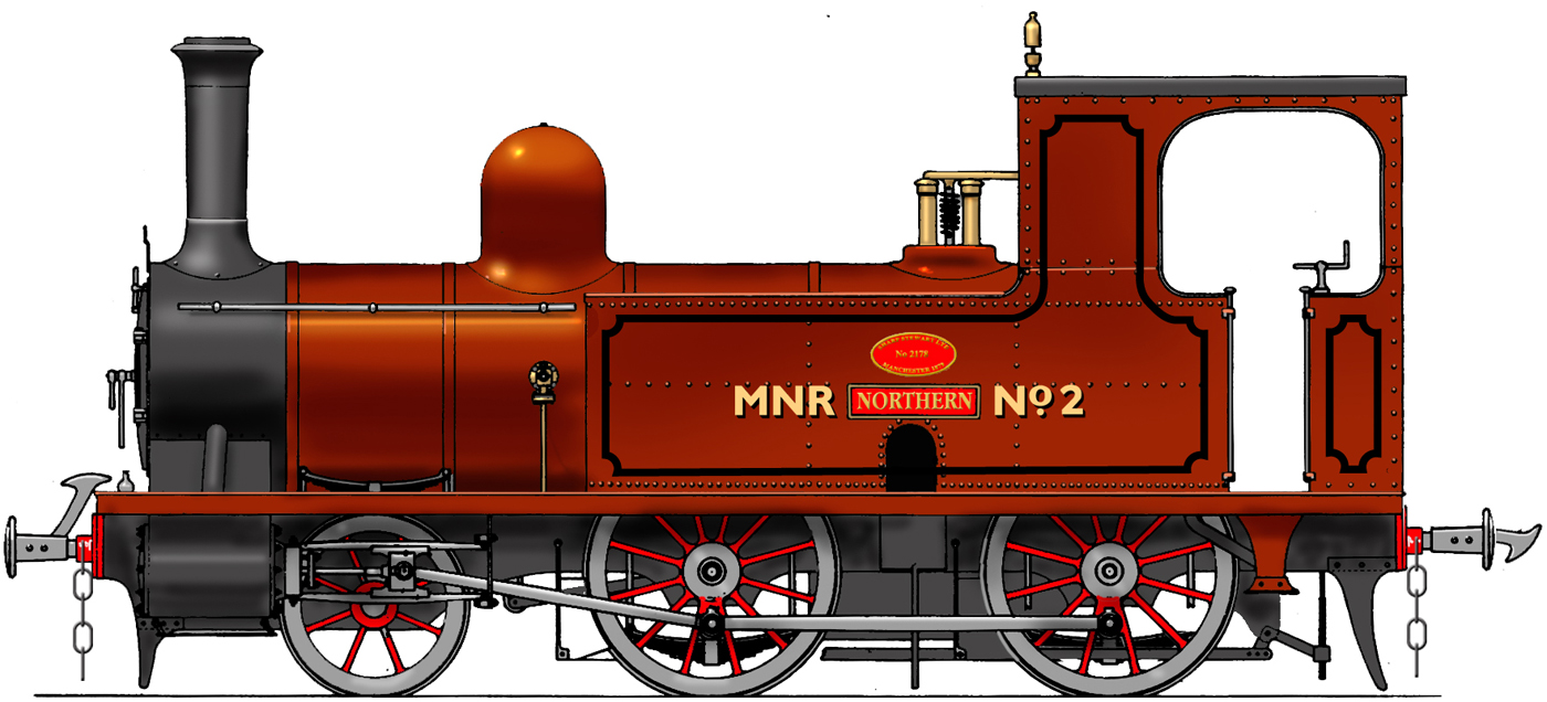 Drawing produced by user:JohnBarrie and uploaded with that user's explicit permission